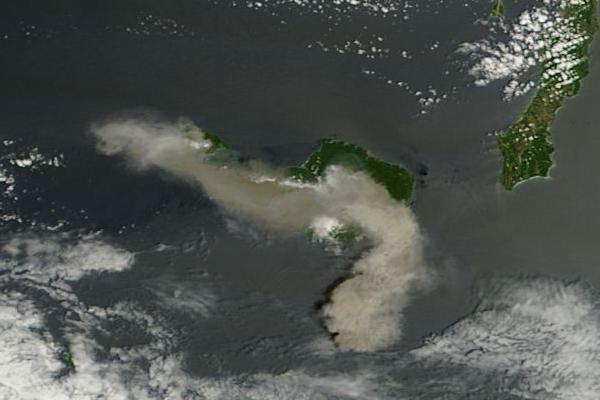 The eruption of Kuchinoerabu-jima, located in Kagoshima Prefecture, Japan.